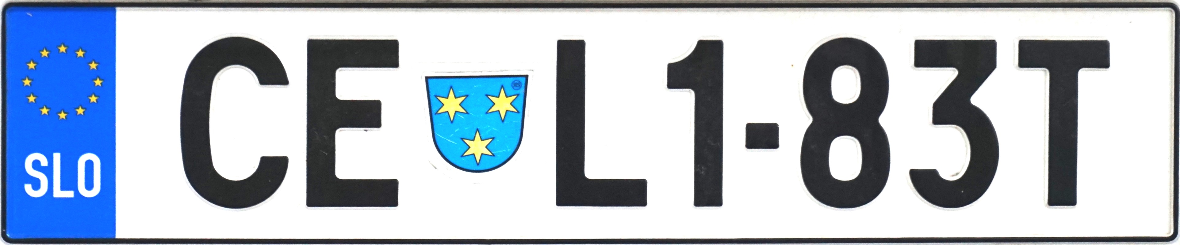 Slovenian license plate with the sticker of Celje administrative unit. 2004-2008 series plate.